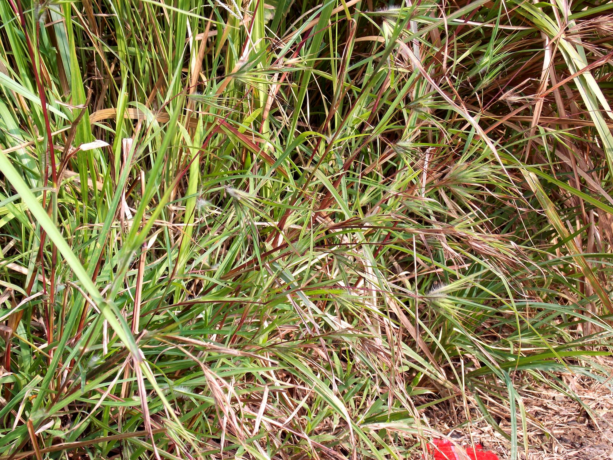 Themeda arguens, from Bogor, West Java, Indonesia.